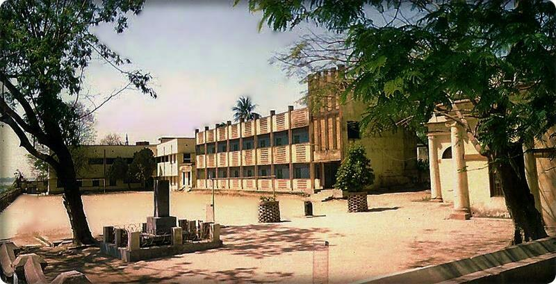 Hooghly Collegiate School in the early 2000s. The Obelisk in the honour of the teacher Achintya Seal can be seen. He was killed when he tried to stop a burglary in the Imambara Sadar Hospital, Chinsurah.